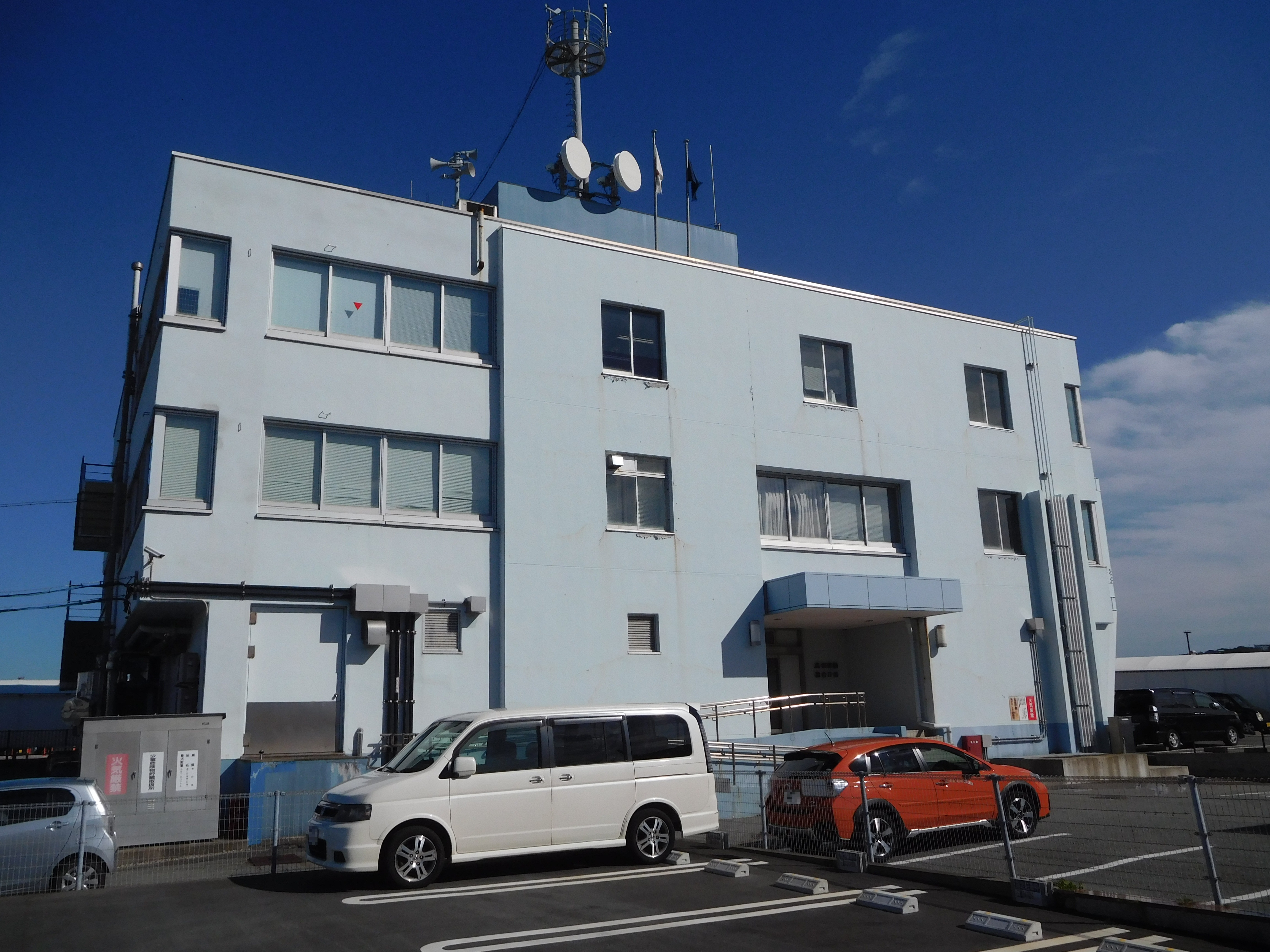 This is Toba Transport General Building in Toba, Mie, Japan.